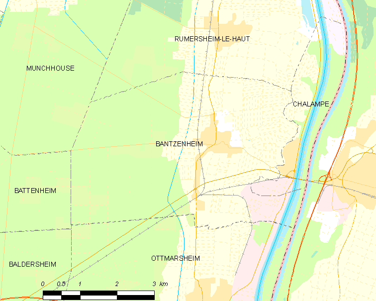 Map of French municipality